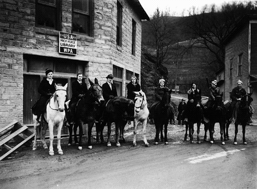 Carriers, mostly women, travel the remote sections of the state by horse and mule. They meet once a week at their library headquarters where saddle-bags are replenished with books for eager mountain folk. These carriers, in Hindman, Kentucky, are paid a small salary by the WPA in Kentucky.